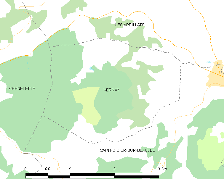 Map of French municipality